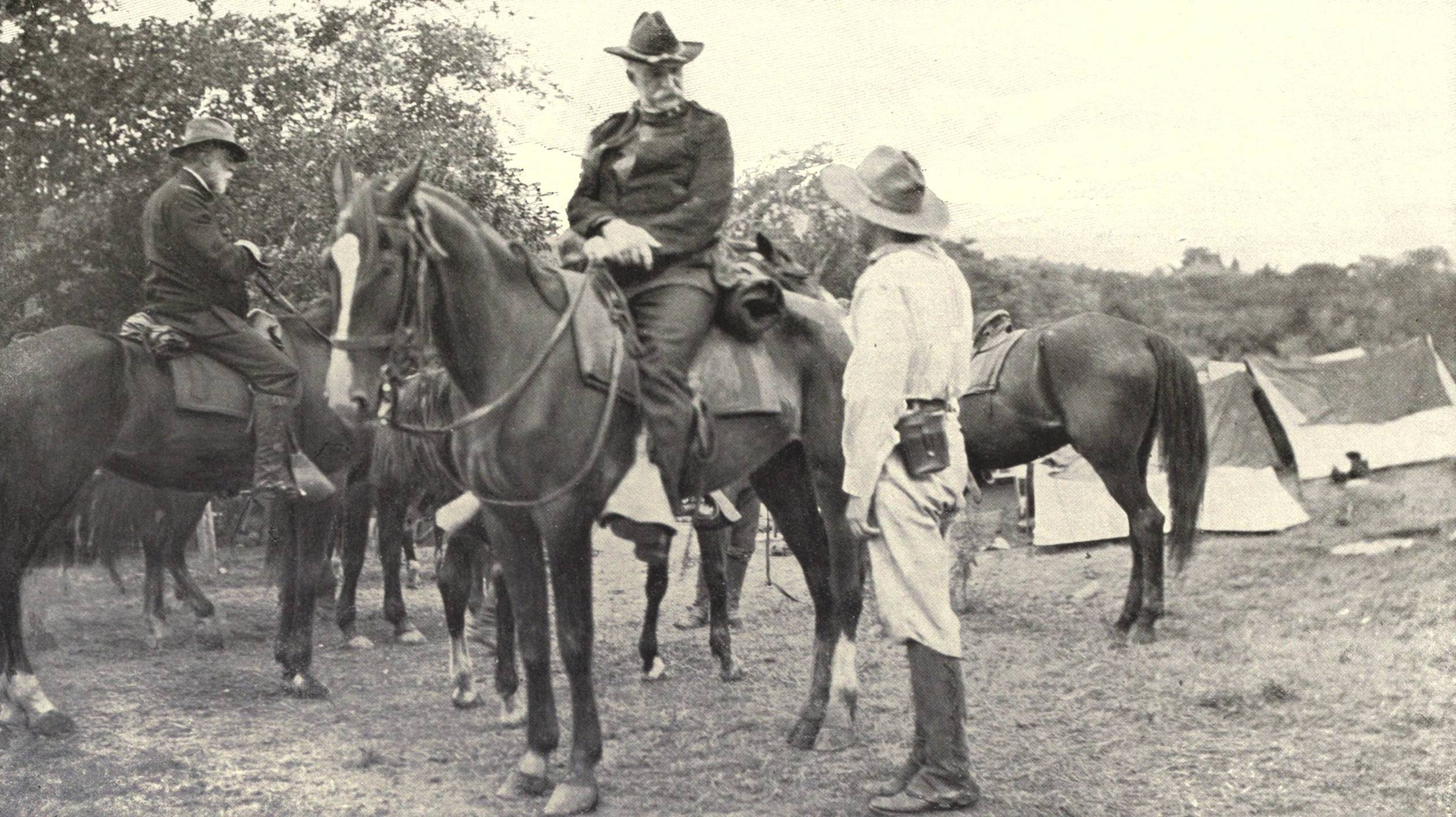 Nelson Miles before Santiago during the negotiations for surrender. From p. 386 of Harper's Pictorial History of the War with Spain, Vol. II, published by Harper and Brothers in 1899.